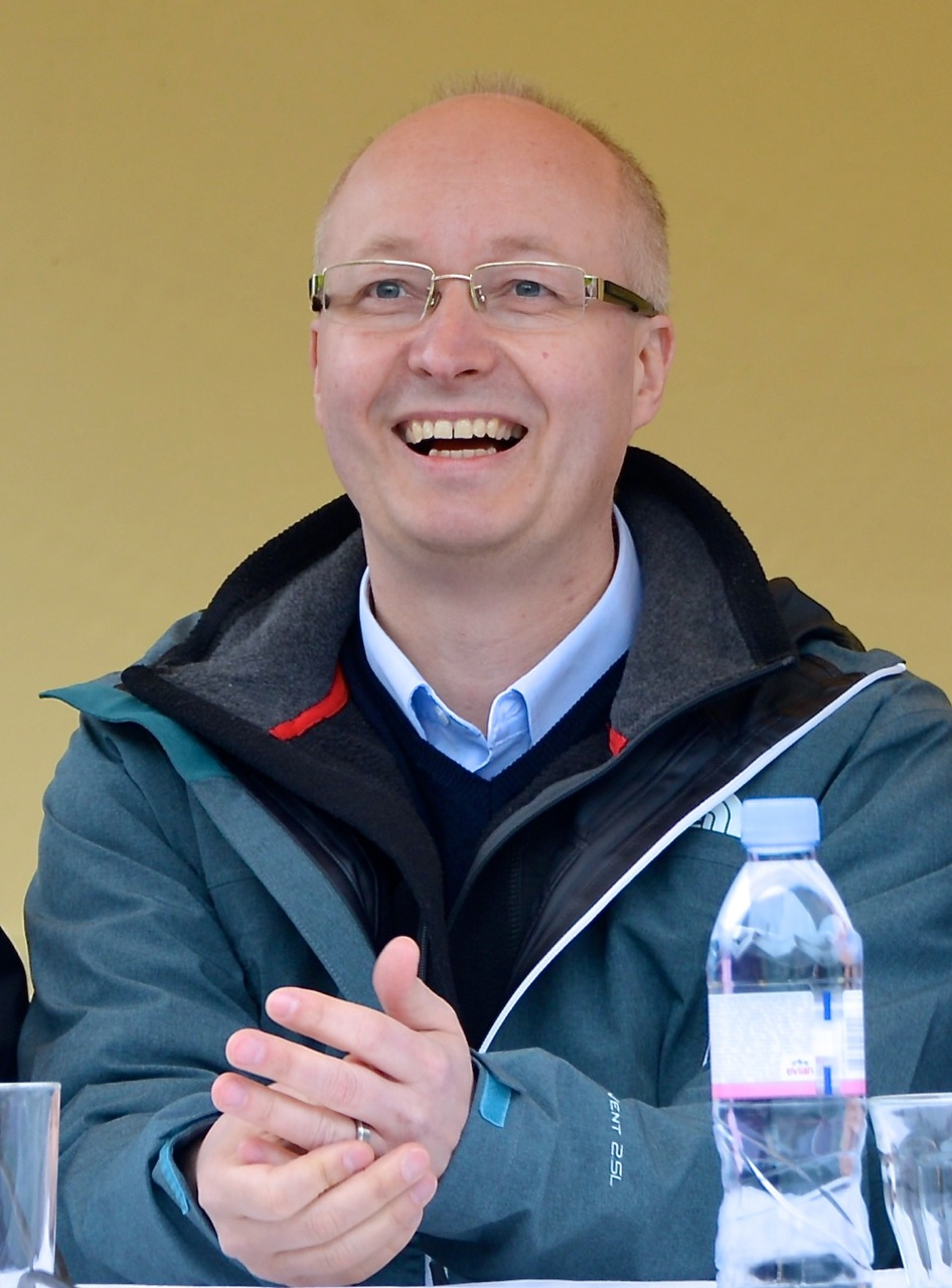 Mikael Gustafsson (V) in a panel discussion on animal welfare in the Kungsträdgården in Stockholm May 14, 2014 for the European elections.